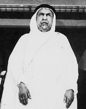 The Late President Gamal Abdel Nasser with Shaikh Abdullah III Al-Salim Al-Sabah during the later's visit to Cairo in 1962.